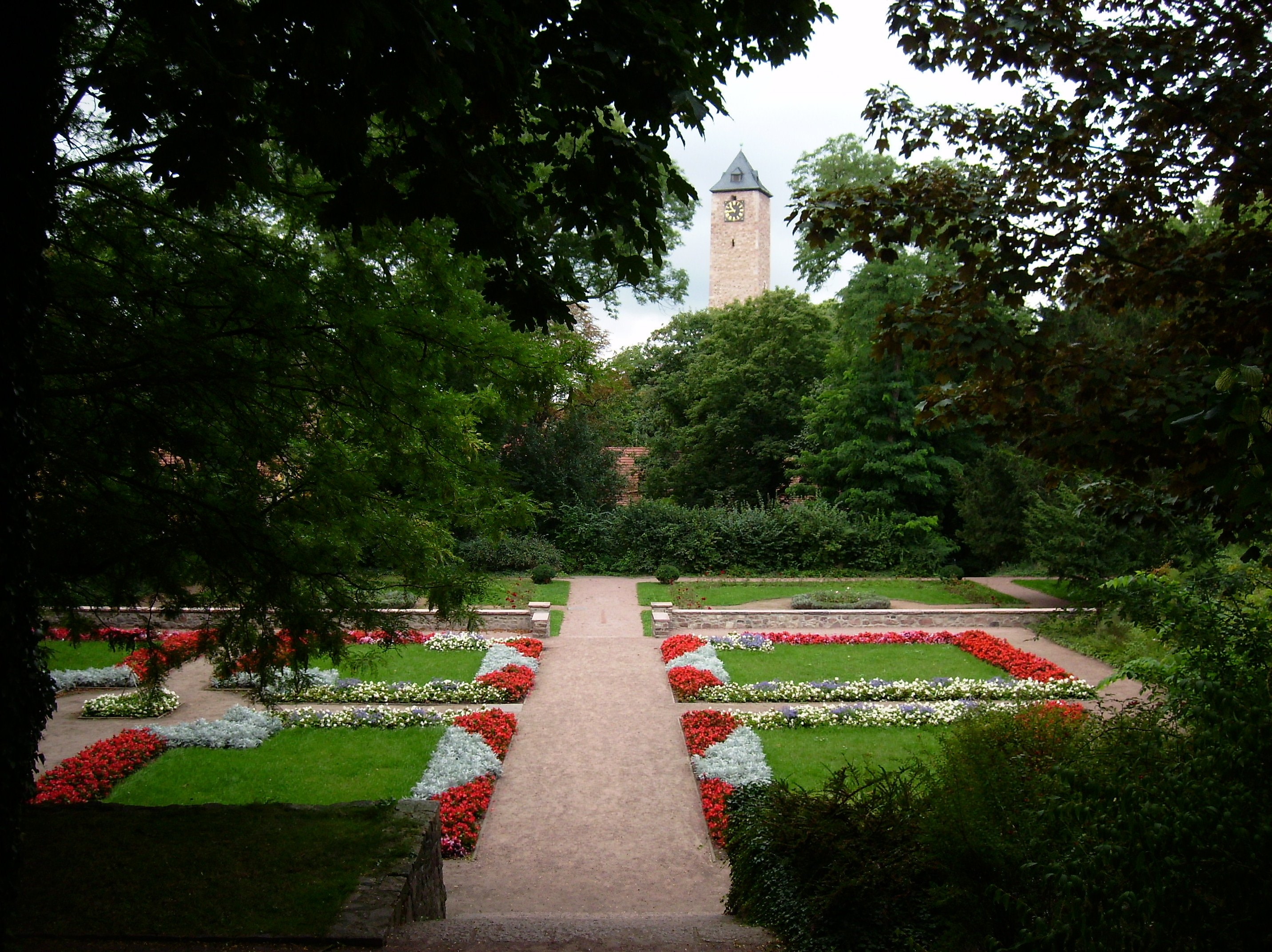 Amtsgarten in the Giebichenstein quarter of Halle/Saale (Saxony-Anhalt)